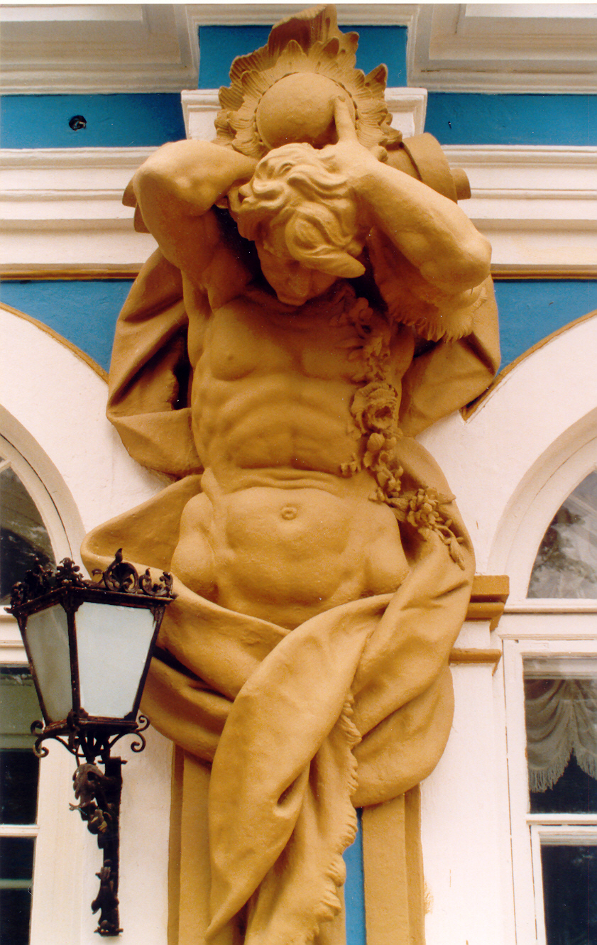 Pushkin (Russia), Catherine Palace